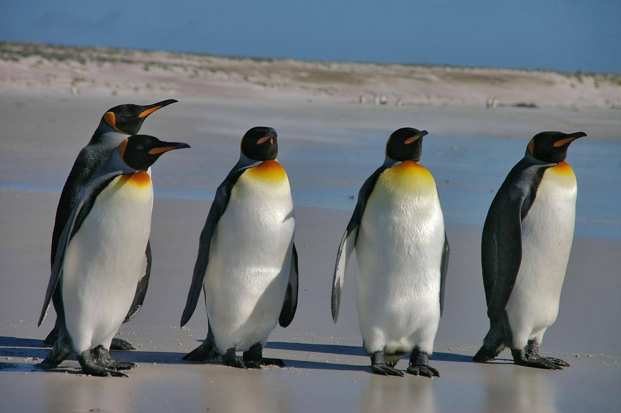 King Penguins (Aptenodytes patagonicus patagonicus), West Falkland